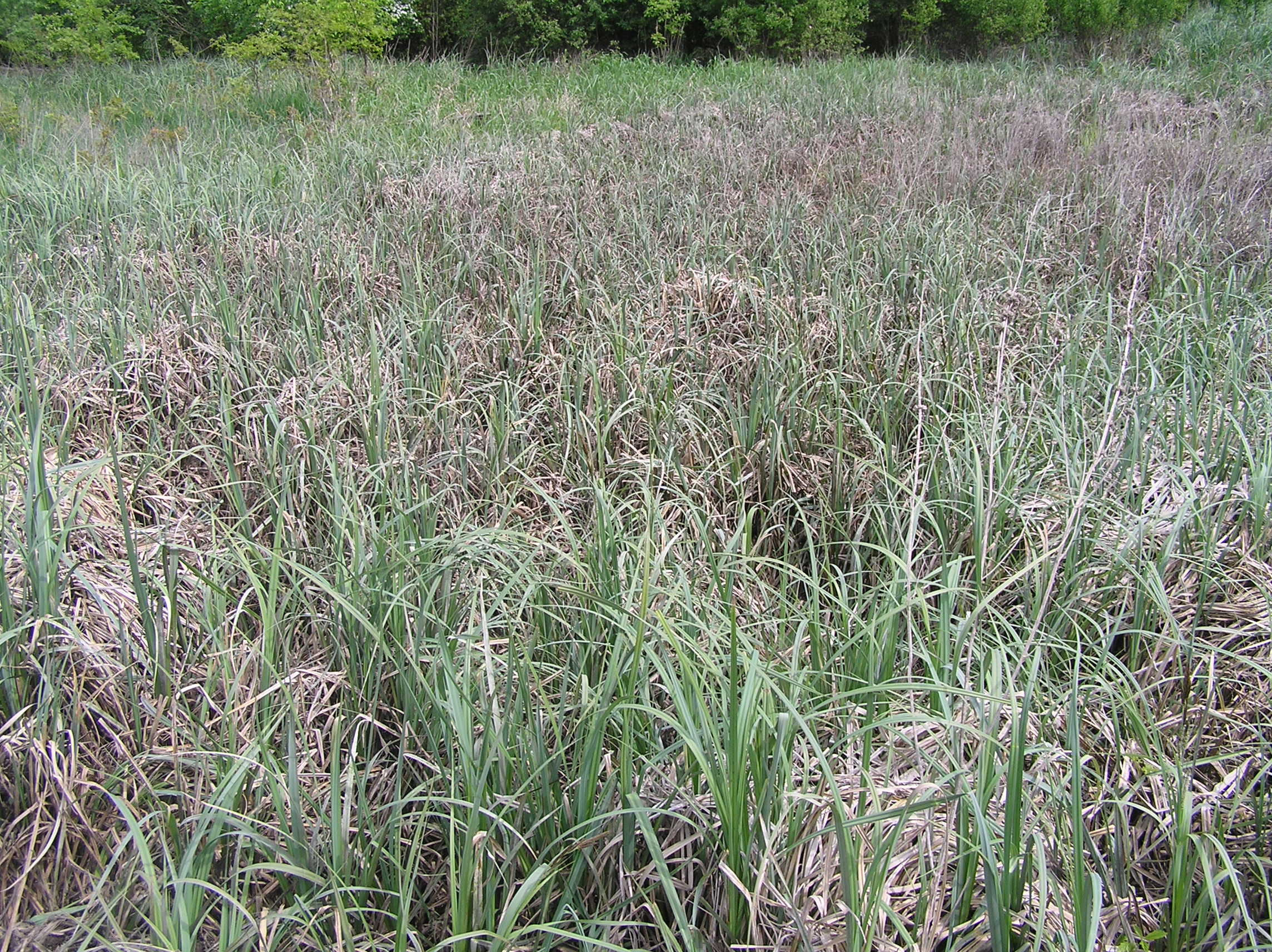 Carex riparia, Lanžhot, Czech Republic